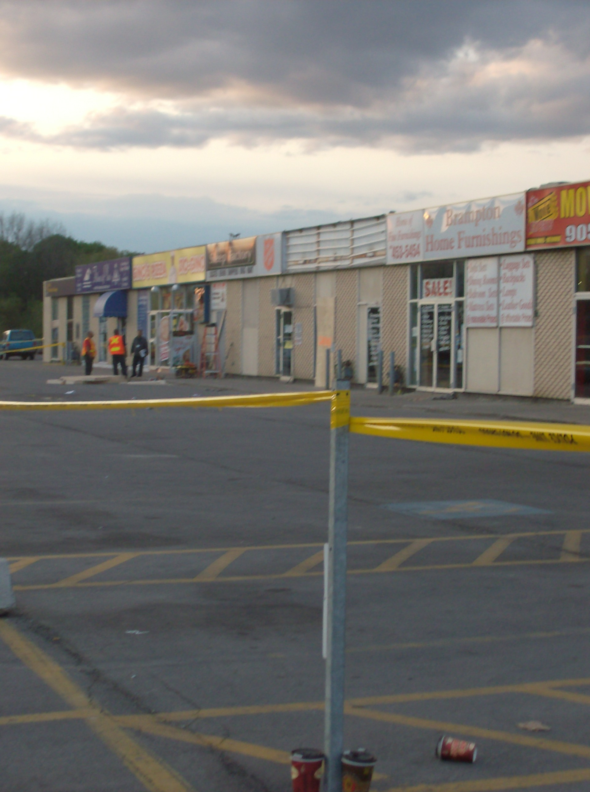 Brampton Mall, 160 Main Street South.